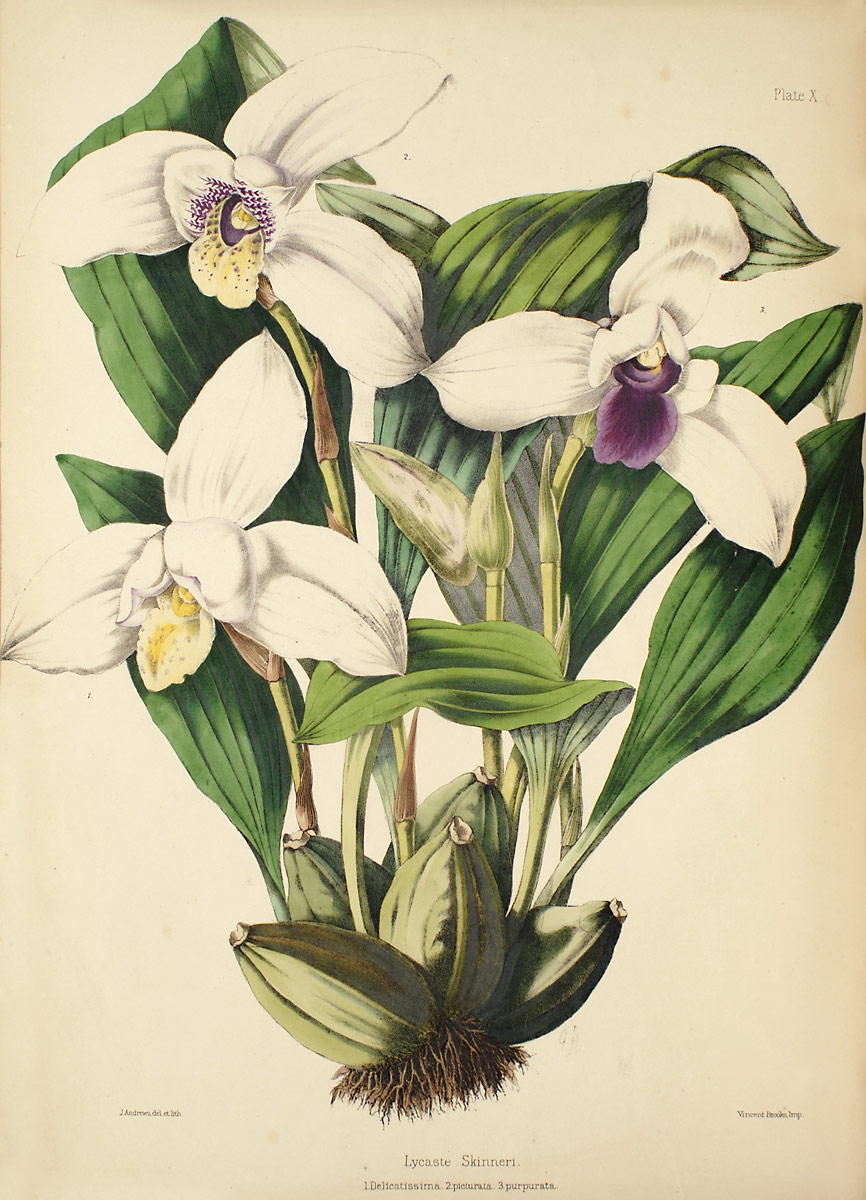 Illustration of Lycaste skinneri